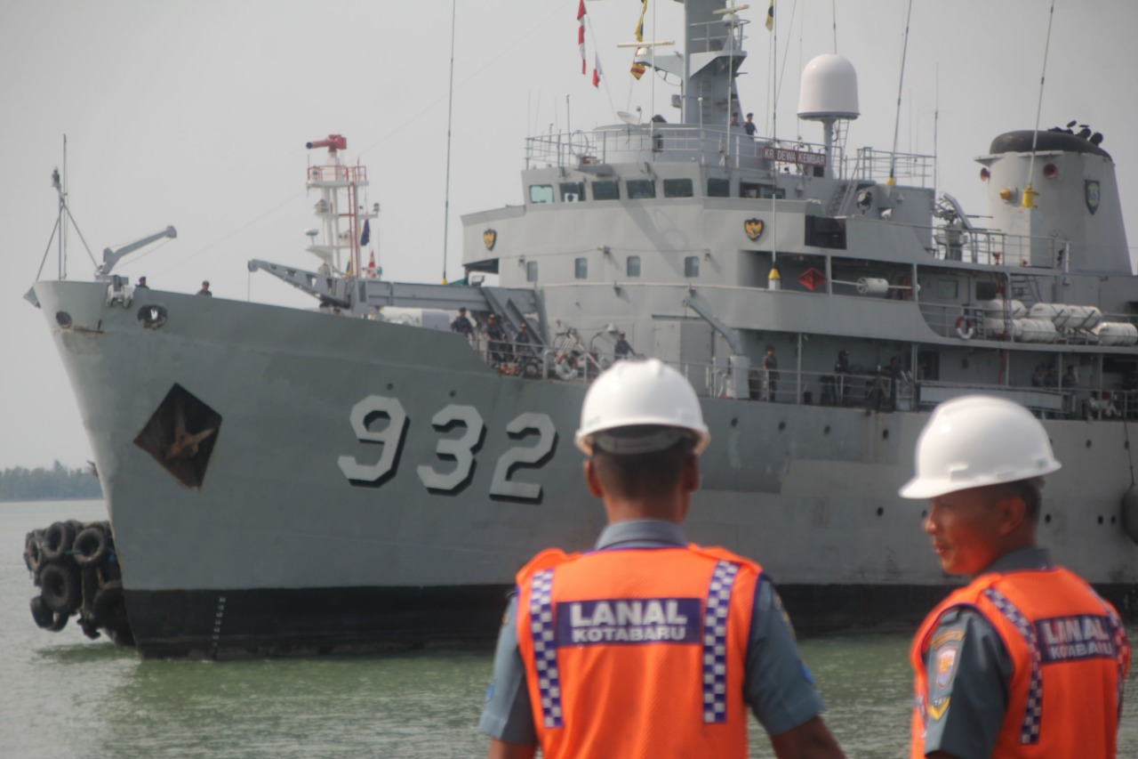 Indonesian navy research vessel KRI Dewa Kembar (932) during her port call at Kotabaru, South Kalimantan